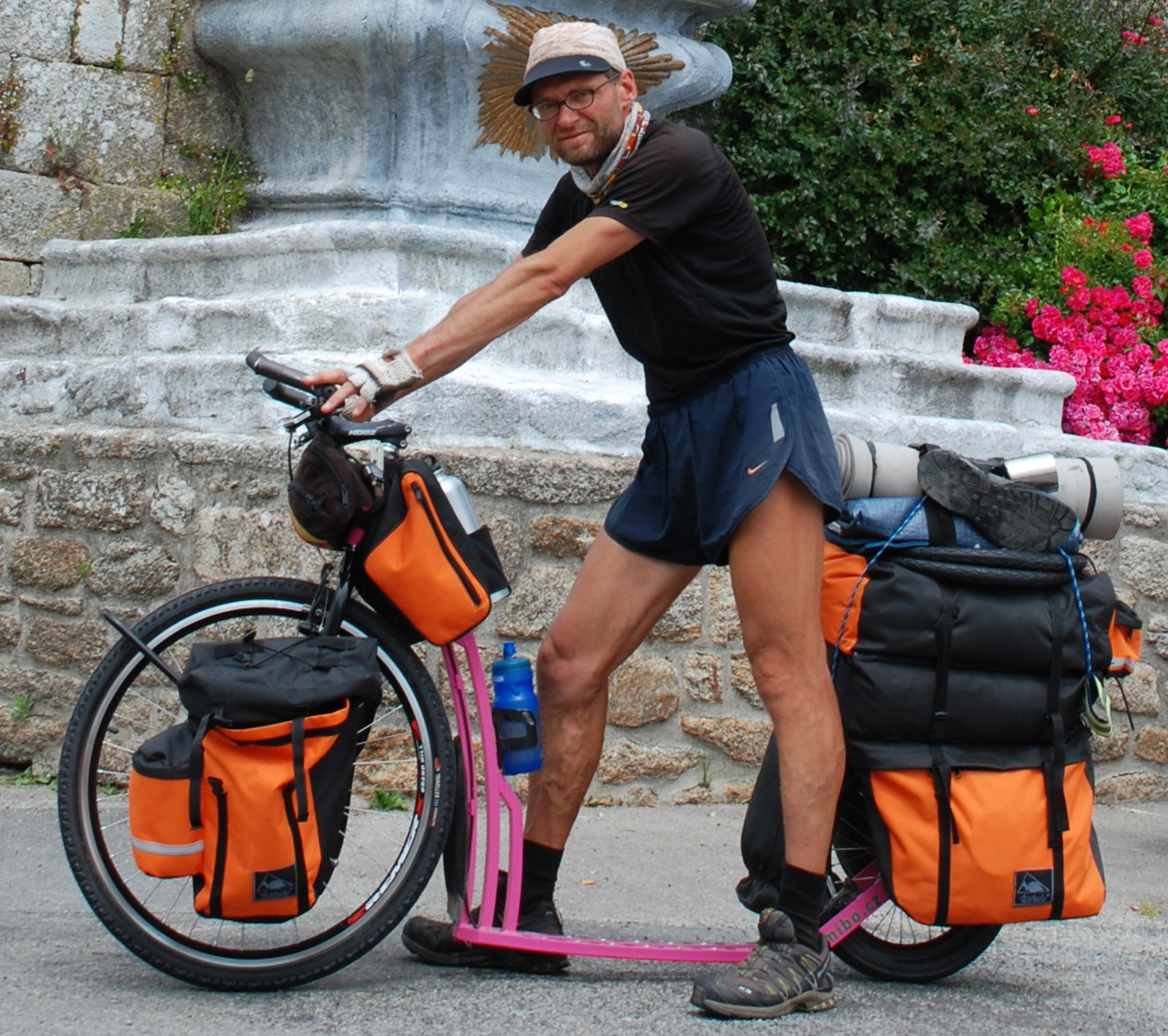 Travelling with kickbike, push scooter.